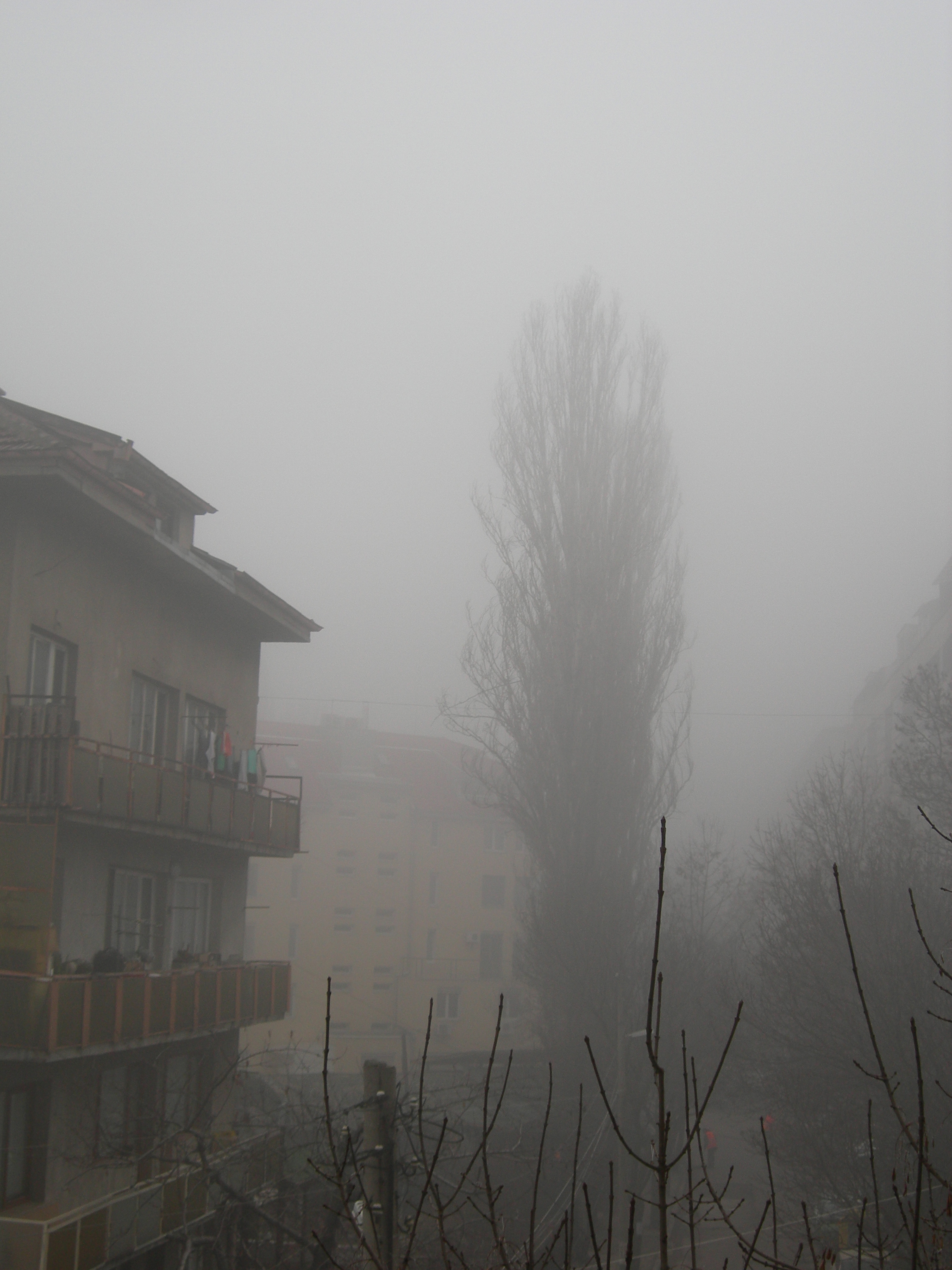 Winter smog in Sofia